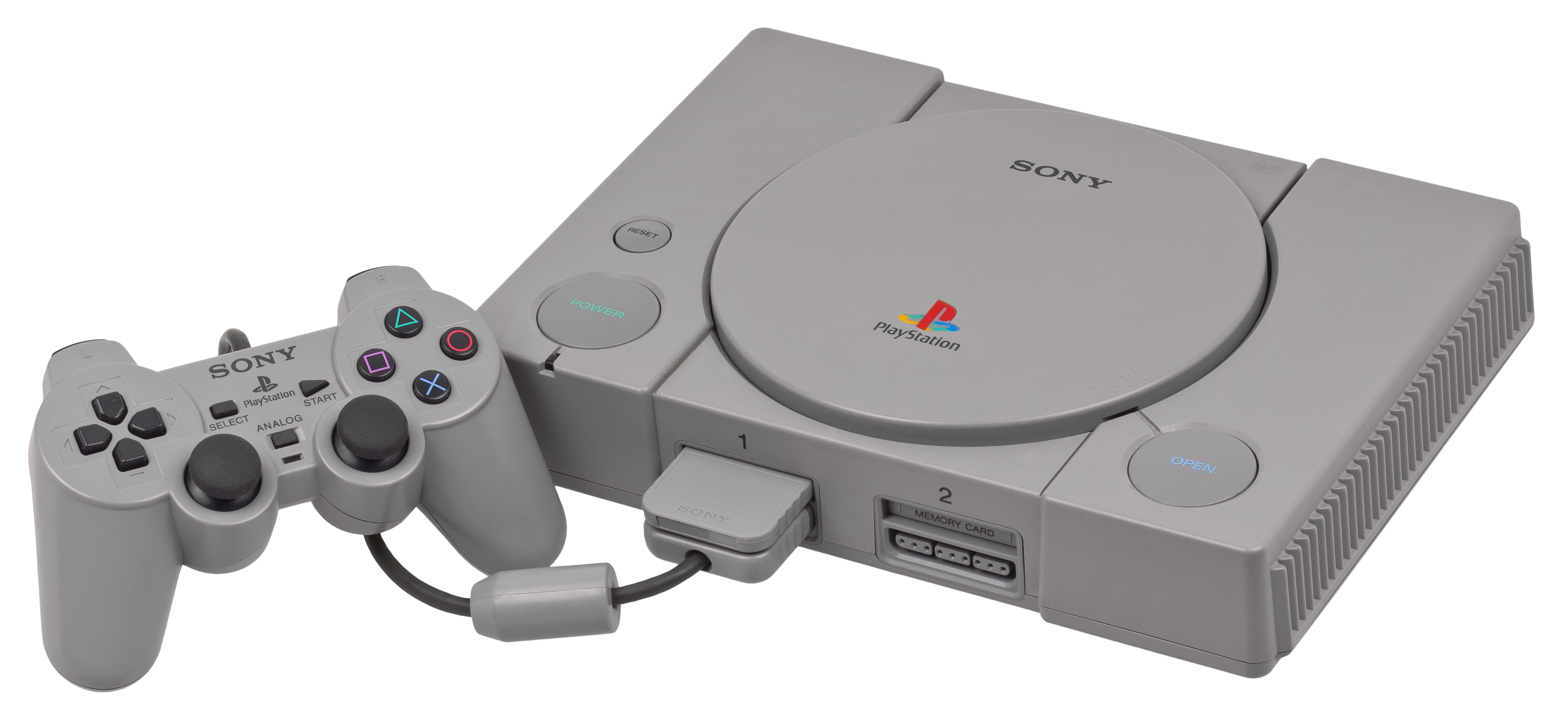 A Sony PlayStation (SCPH-5001), shown with a DualShock controller and Memory Card. This is the JPG version.